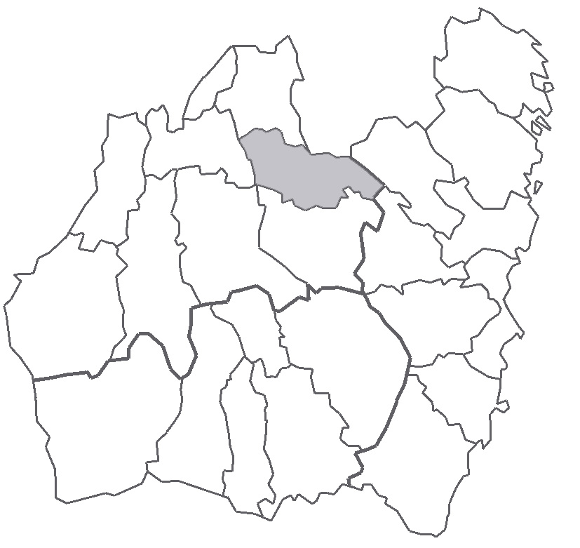 Map describing the location of Vedbo Southern Hundred in the province of Småland, Sween.